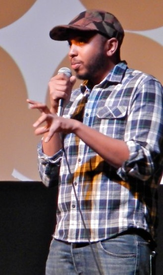 "Dear White People" at Sundance 2014